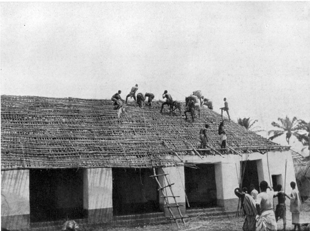 A dokpwe, a male workforce, in Dahomey, roofing the house of a chief